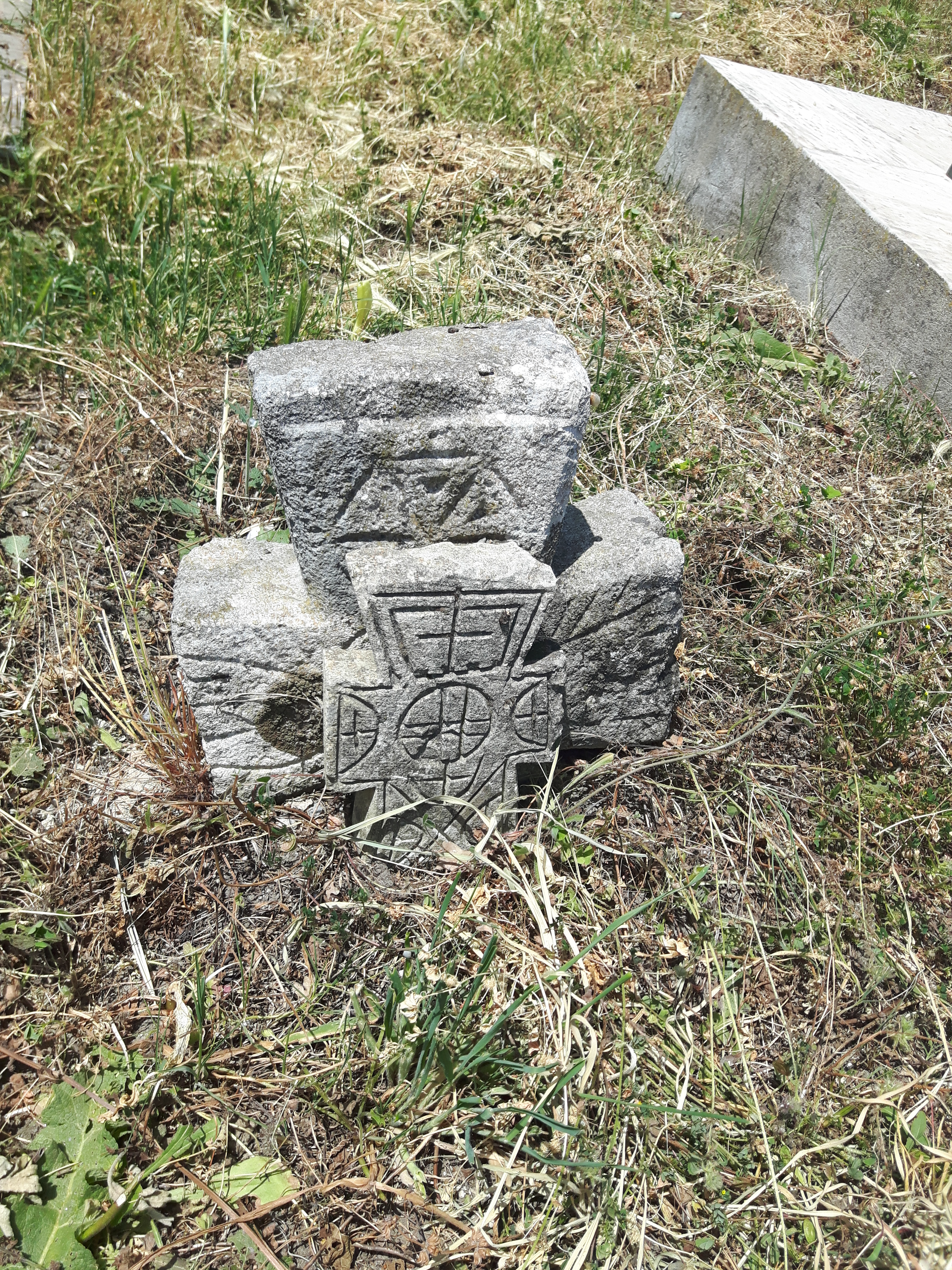 Saint Nicolas Church in Vanaj, Fier. Old stone crosses in the cemetery.